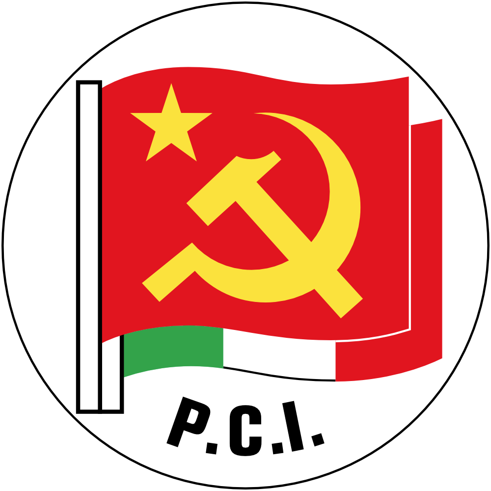 Logo Italian Communist Party